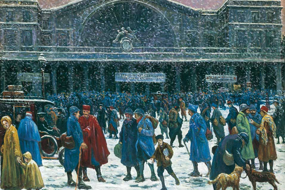 The East Railway Station under the snow